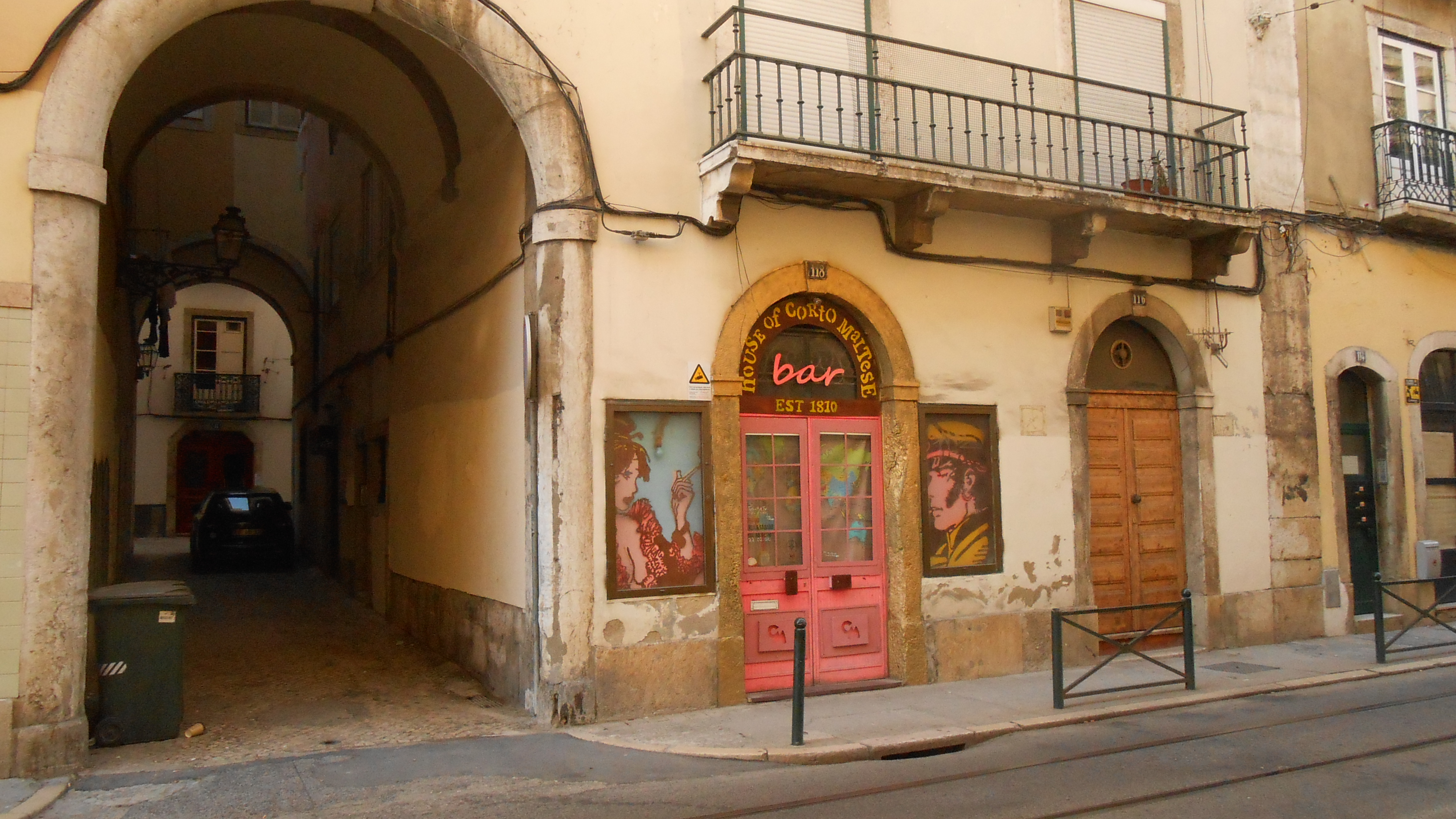 The House of Corto Maltese, a bar openend in 2016 in a former shop established in 1810 and located in the Rua de São Paulo, in Lisbon. The bar pays tribute in name and concept to the adventures of comic hero Corto Maltese.